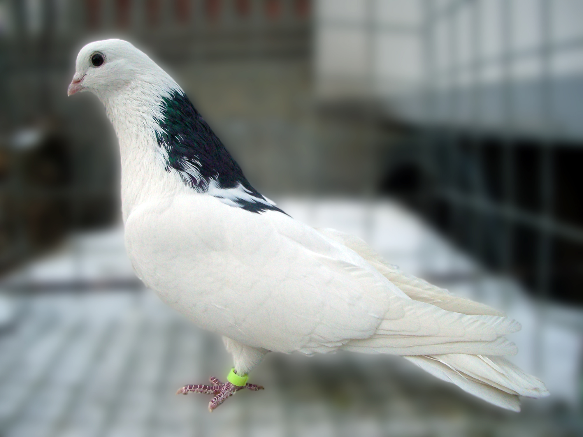 Chistopolian High-flying White Maned Pigeon